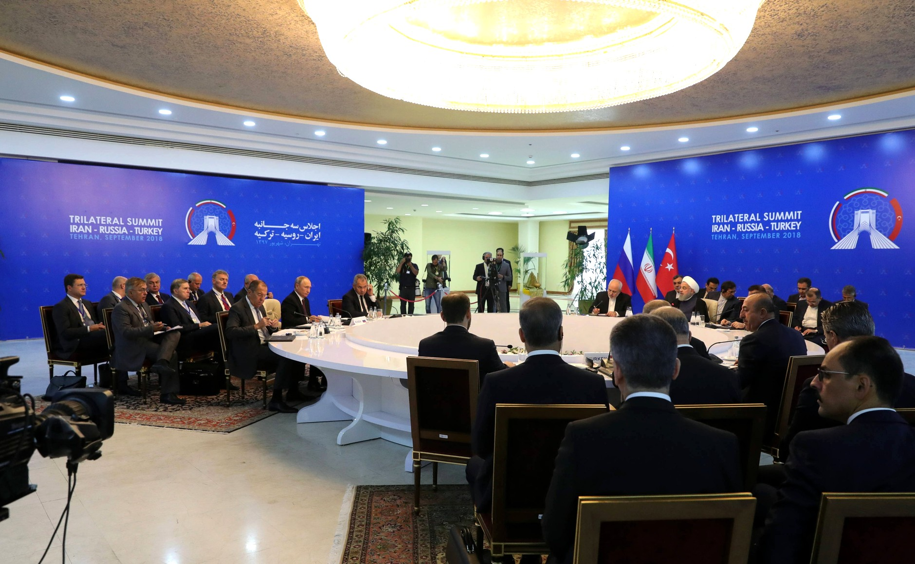 Trilateral Iran-Russia-Turkey Summit September 2018 in Tehran